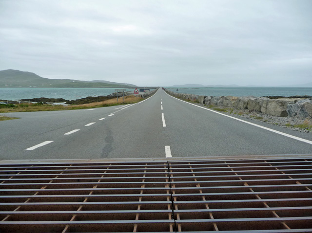 Eriskay causeway The causeway connects Eriskay to South Uist. It is the most recent of the fixed links of the Outer Hebrides, having been opened in 2001.